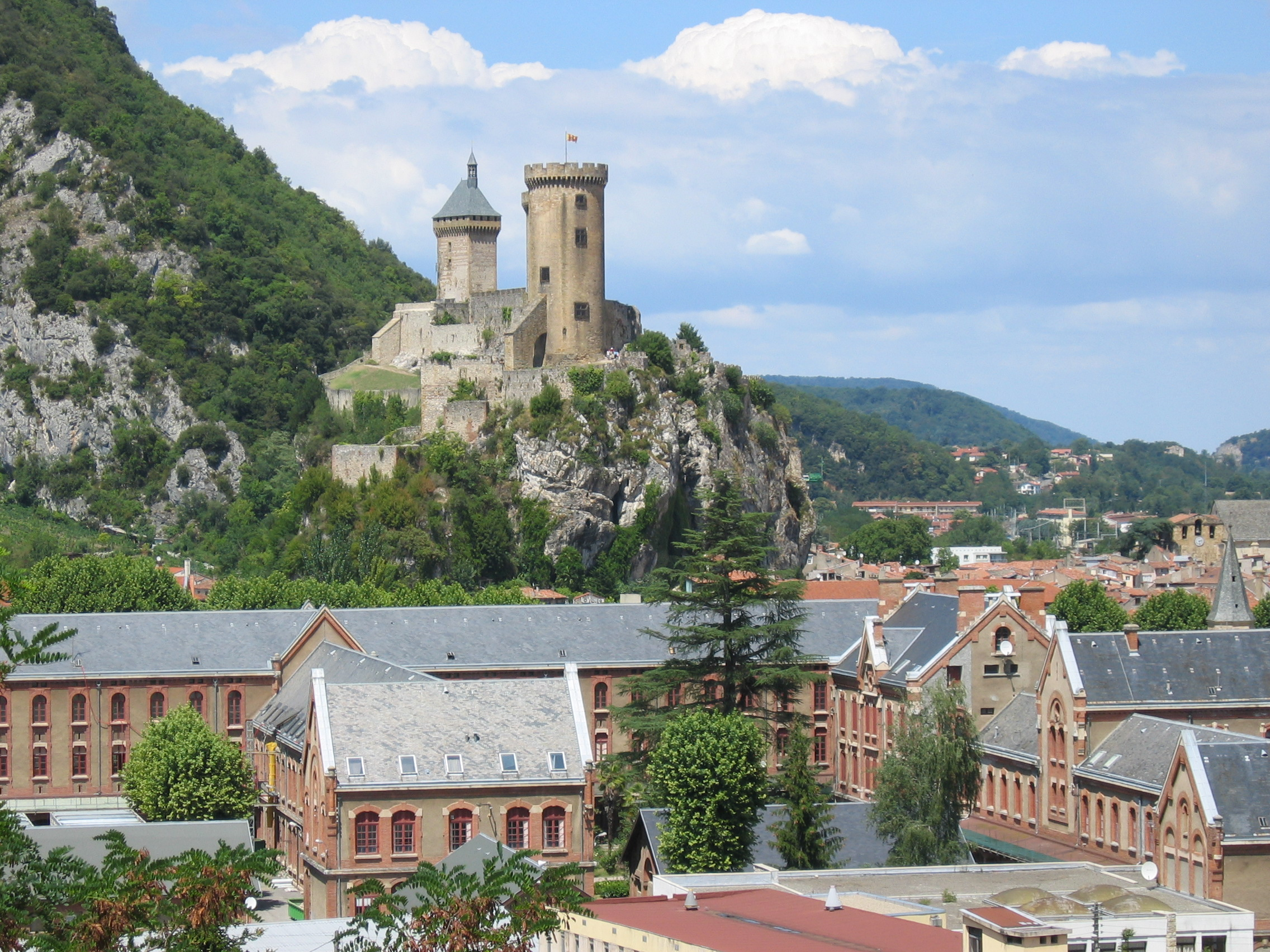 Castle and city of Foix (Ariège, Midi-Pyrénées, France).